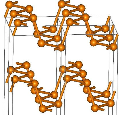 structure of black phosphorus Journal = JOURNAL OF CHEMICAL PHYSICS, NEW YORK Year = 1979 Volume = 71 Page = 1718-1721 Title = Effect of pressure on bonding in black phosphorus Authors = Cartz L., Srinivasa S.R., Riedner R.J., Jorgensen J.D., Worlton T.G.